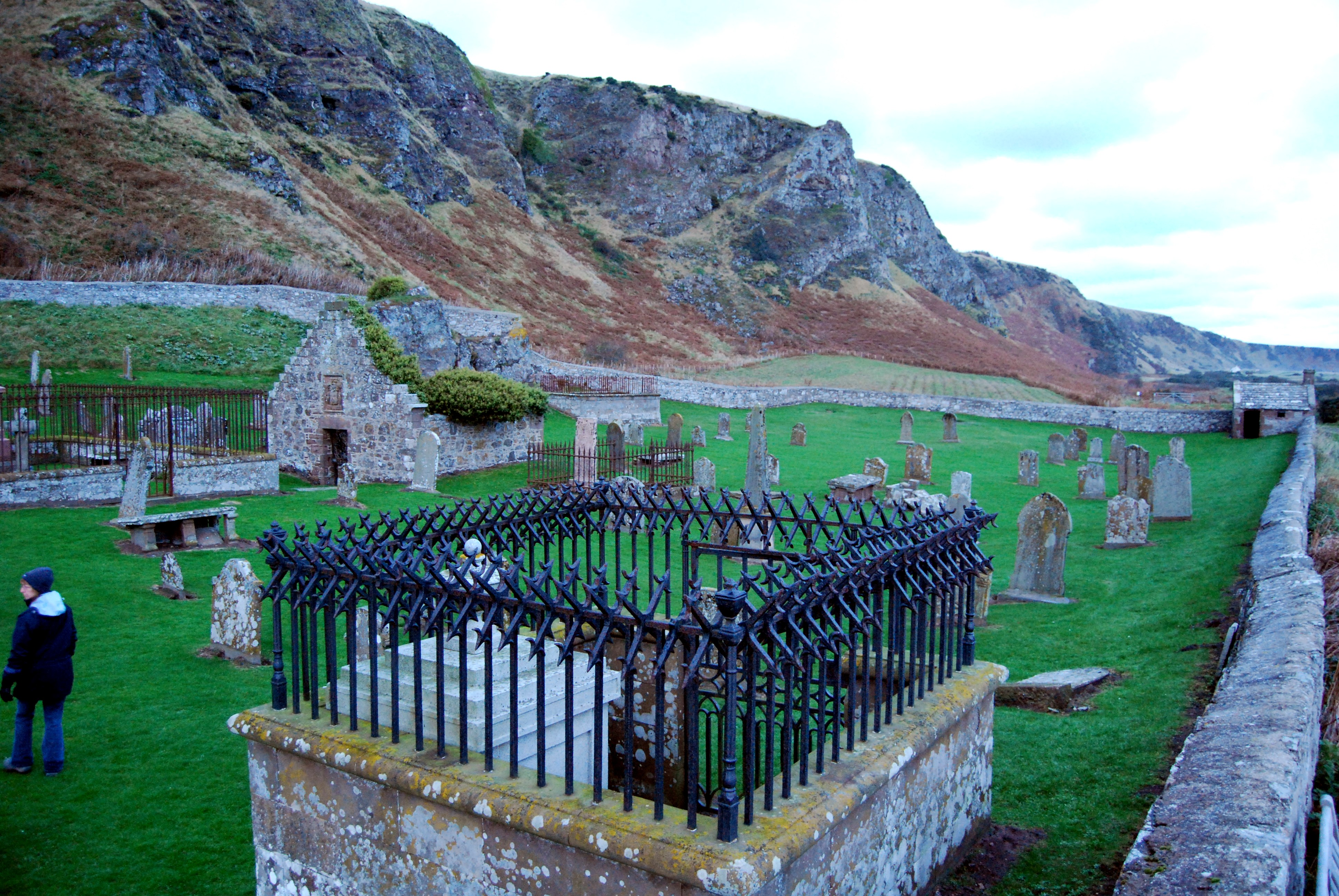 St Cyrus, Montrose, Scotland Ancient Nether Kirkyard at Dusk.